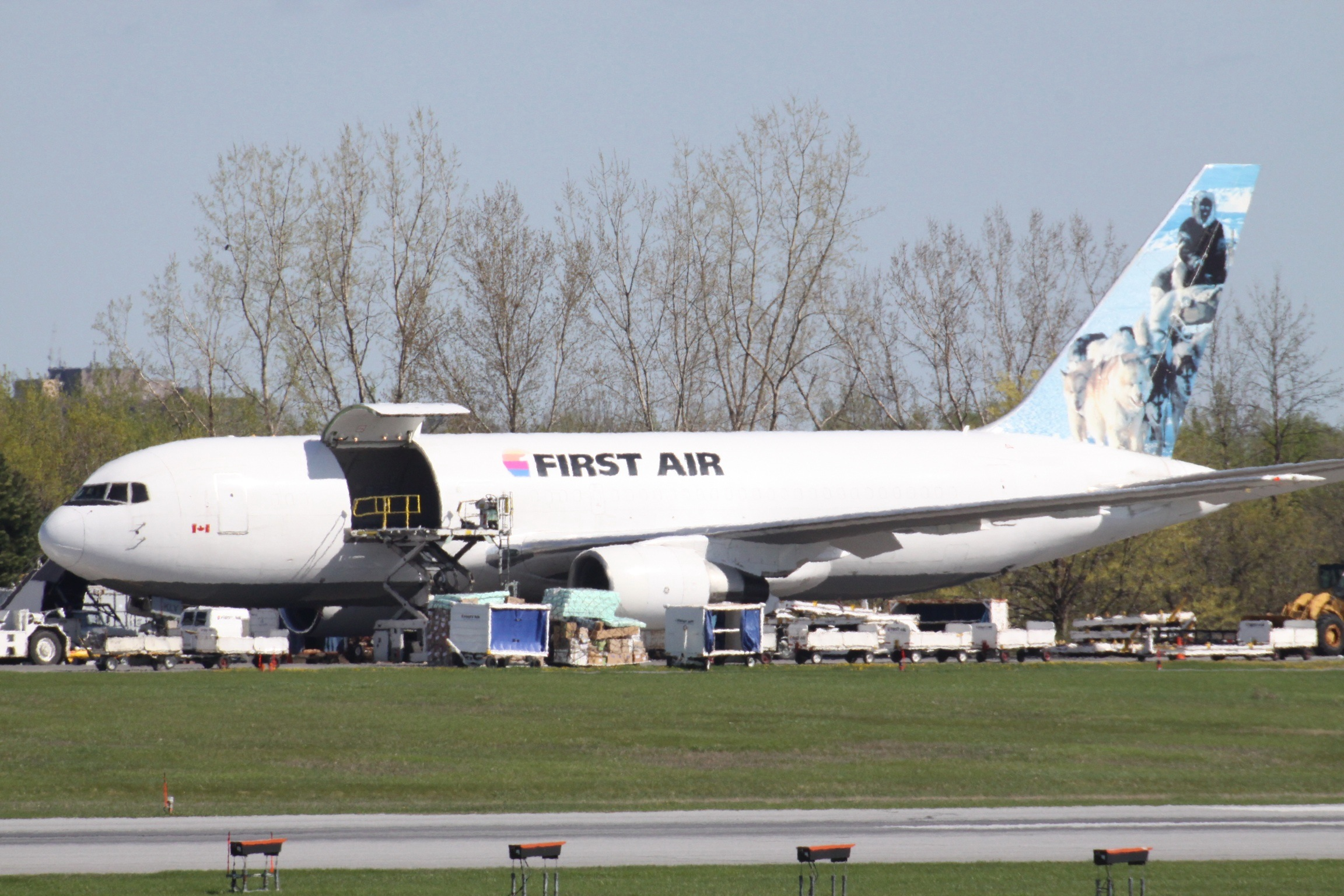 At Ottawa Macdonald-Cartier International